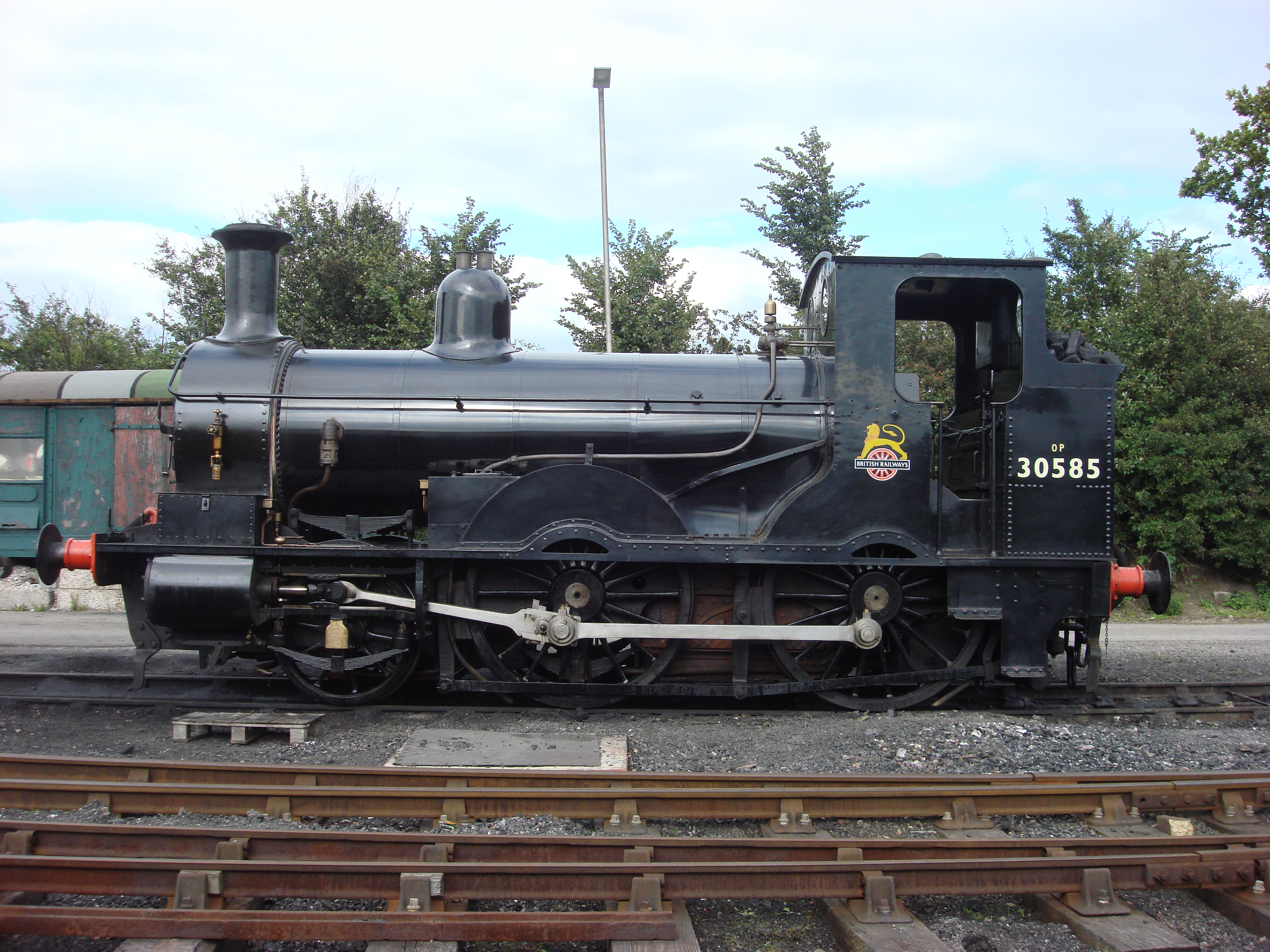 London and South Western Railway (LSWR) 0298 Class or Beattie Well Tank No. 0314 at the Buckinghamshire Railway Centre